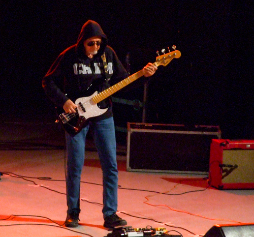 The Bulgarian bass guitarist Konstantin Markov performing with the supergroup Legendite at the Summer Amphitheater, Burgas.